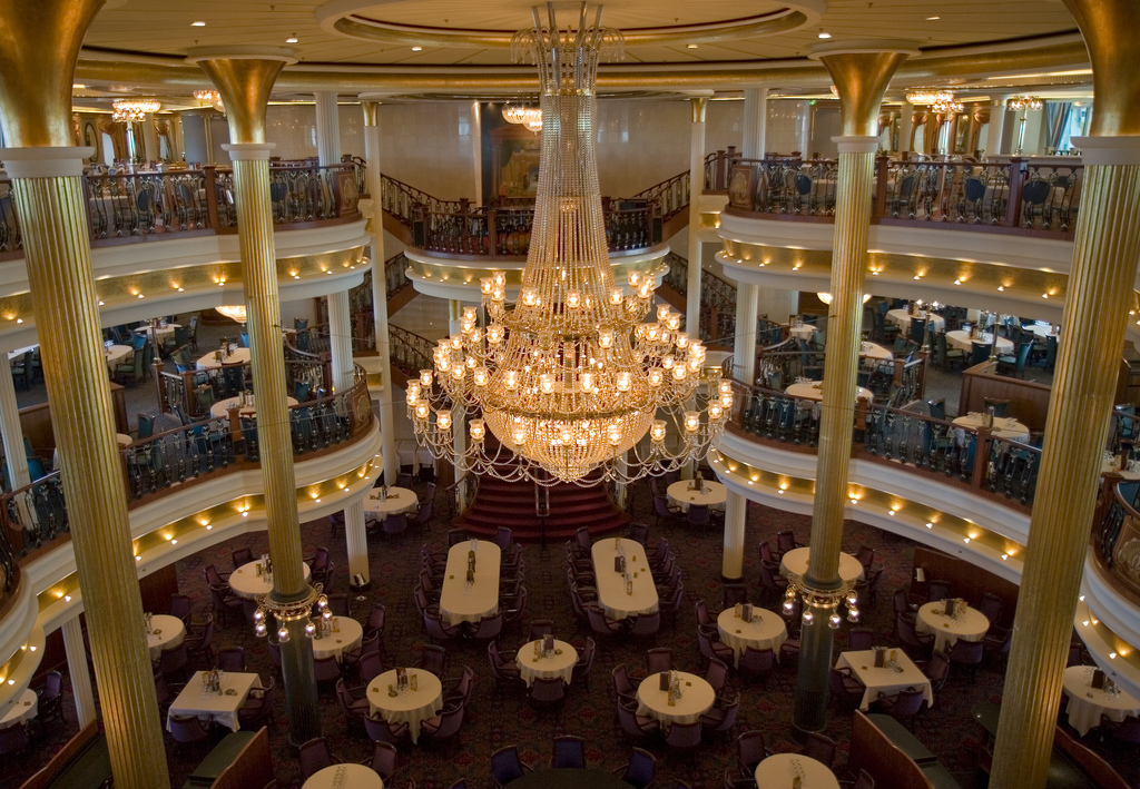 Adventure of the SeasVivaldi Dining Room